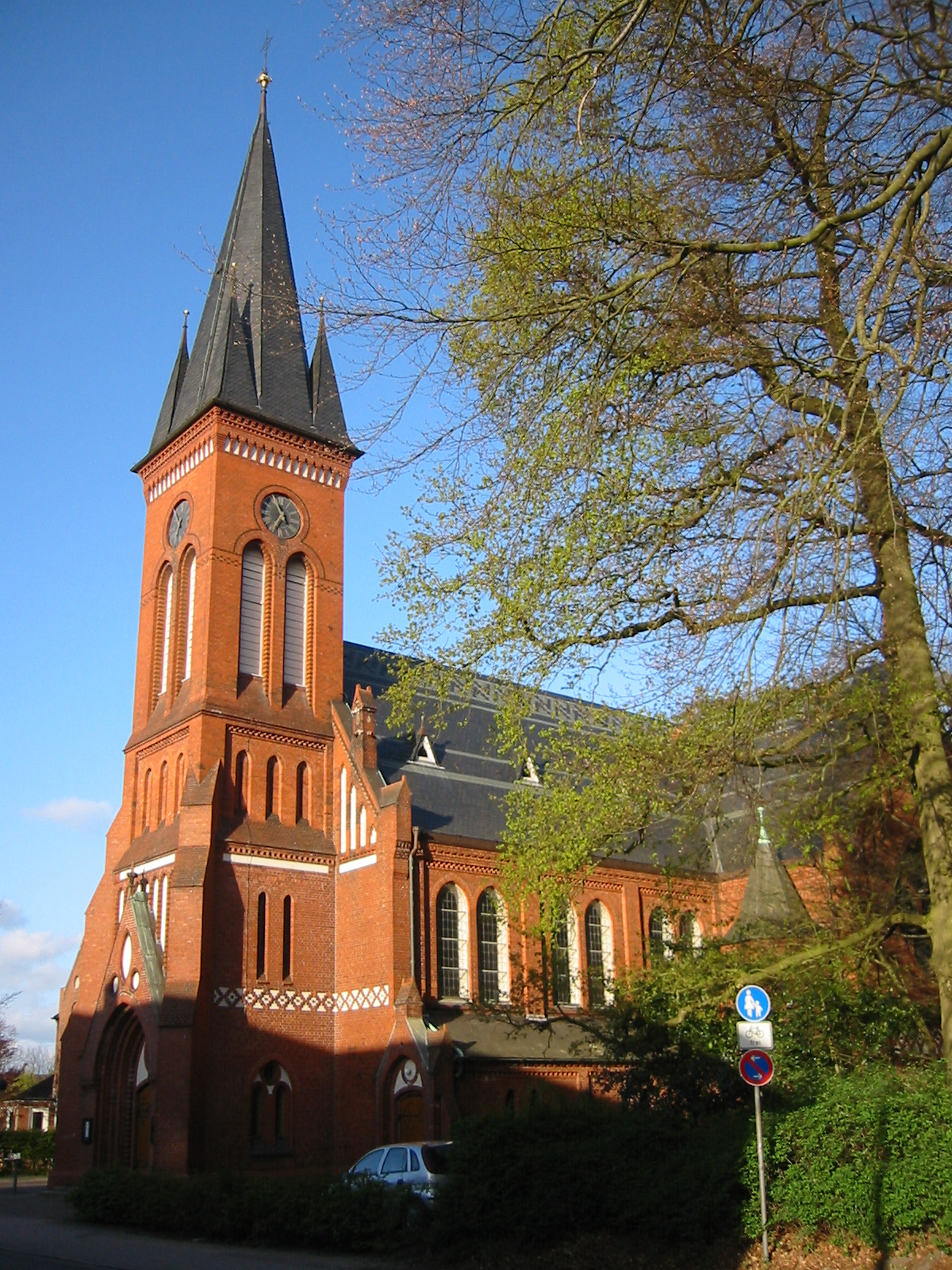 Christus Church in Pinneberg-Germany, Bahnhofstraße 2